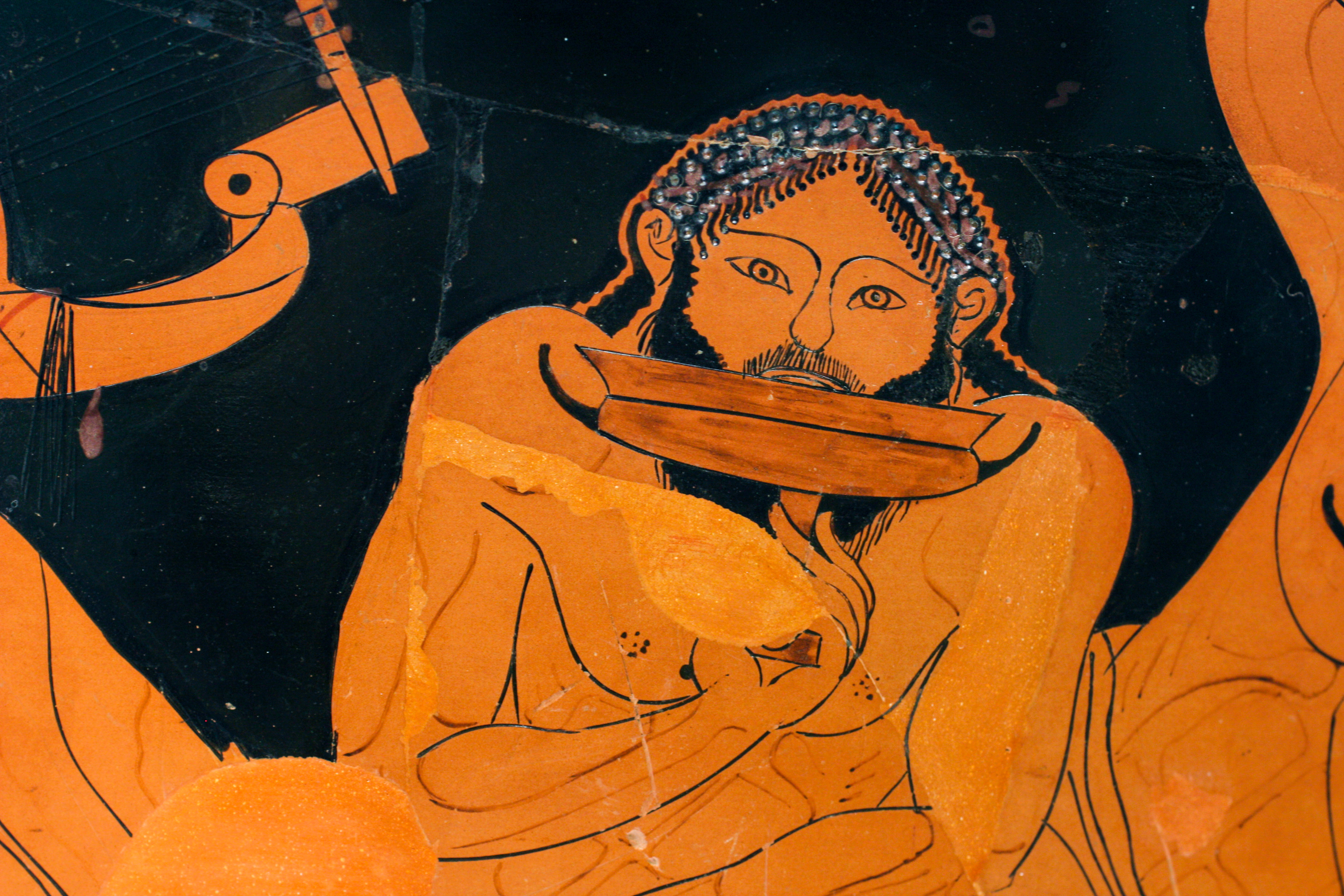 object type / vase shape: attic red figure calyx-krater - description: symposion: side A: 4 men (name inscriptions: Thodemos, melas, Smikros, Ekphantides) on 2 klinai, hetaira (Syko) playing auloi (double flute); Leagros kalos - side B: 3 young cupbearers / servants preparing the wine - production place: Athens - painter: Euphronios - period / date: late archaic, ca. 510-500 BC - material: pottery (clay) - preserved height: 38,3 cm - findspot: unknown - museum / inventory number: München, Staatliche Antikensammlungen 8935 - bibliography: John D. Beazley, Attic Red-Figure Vase-Painters, Oxford 1963(2), 13, 3bis Wolf-Dieter Heilmeyer and others, catalogue to the special exhibition (Berlin 1991 ) „Euphronios. Der Maler“, Milano 1991, cat. 5 - Please note: The above museum permits photography of its exhibits for private, educational, scientific, non-commercial purposes. If you intend to use the photo for any commercial aime, please contact the museum and ask for permission.